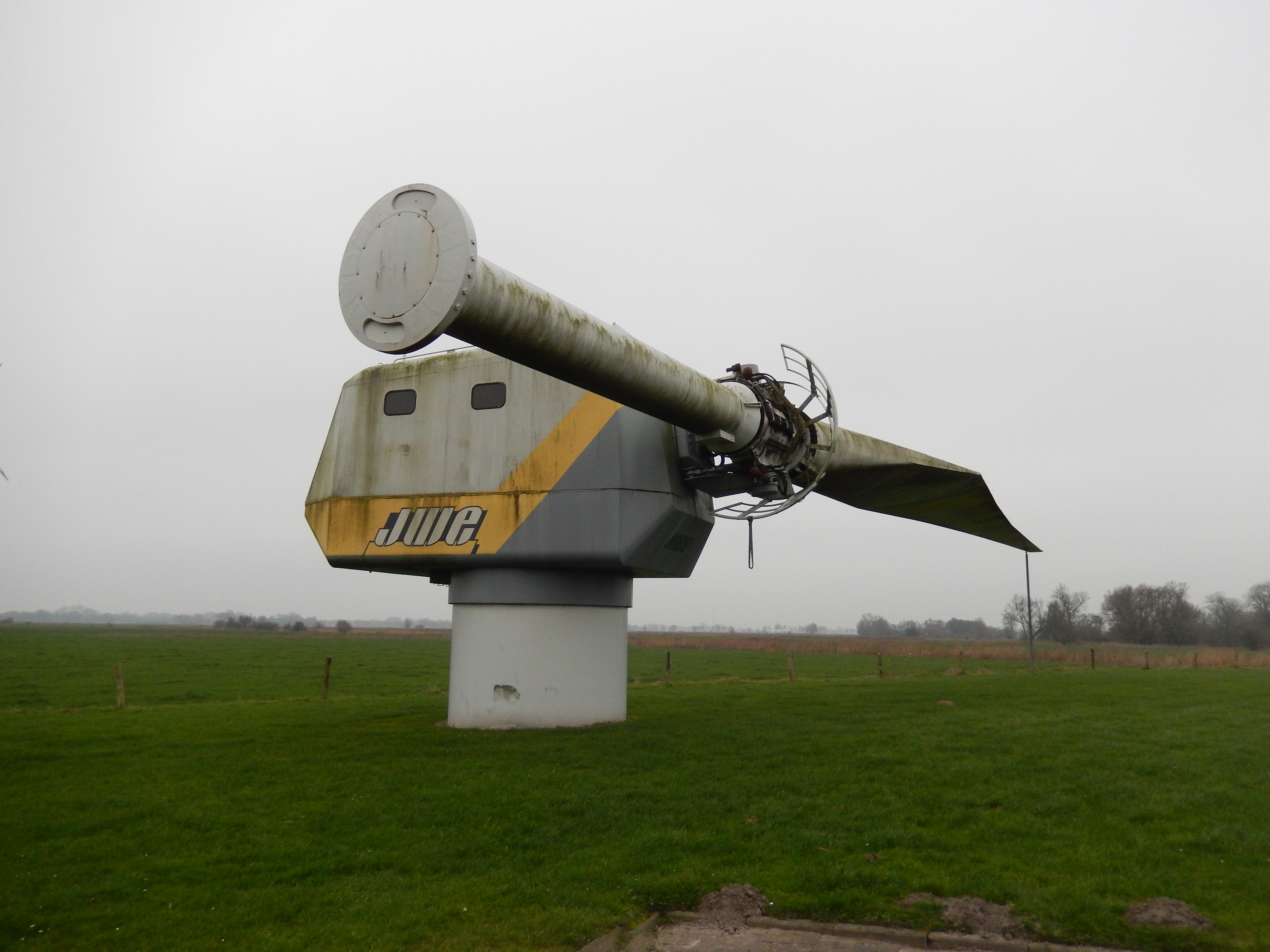 Rotor in Wilhelmshaven, Germany.